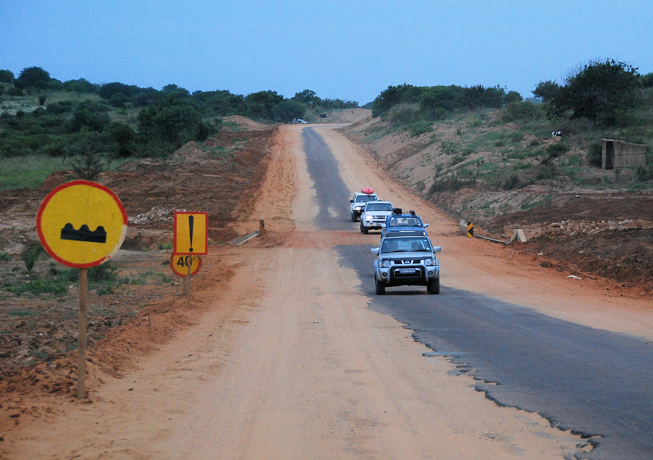 N1 Road between Xai-Xai and Chidenguele, 2010